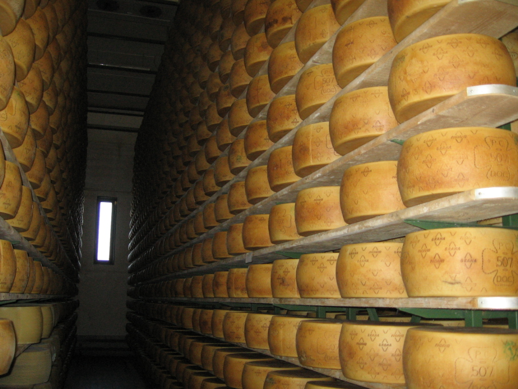 Italian cheese Grana Padano : A storehouse of italian cheese Grana Padano. Photo by Wikirog